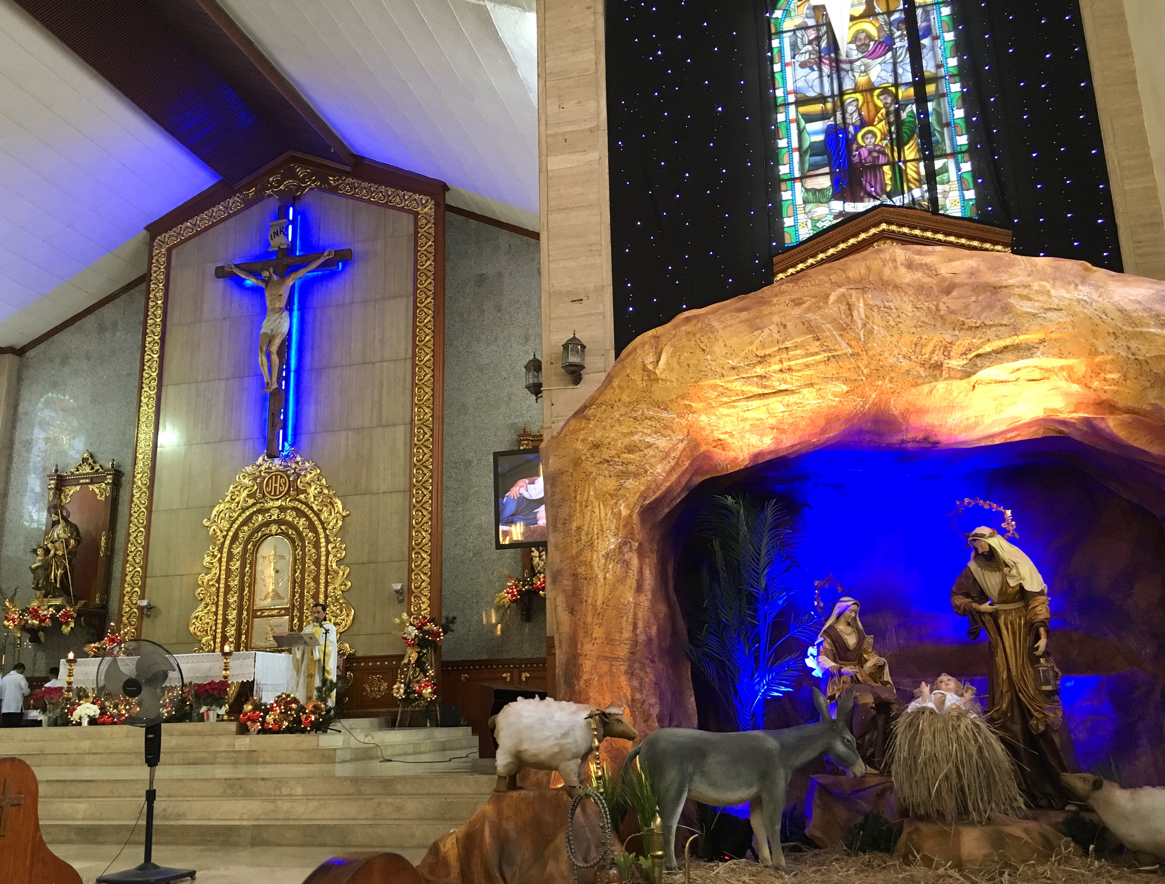 Featuring the beautiful belen of SSJ